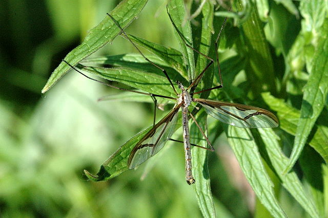 Picture taken in Commanster, Belgian High Ardennes . Species: Pedicia rivosa